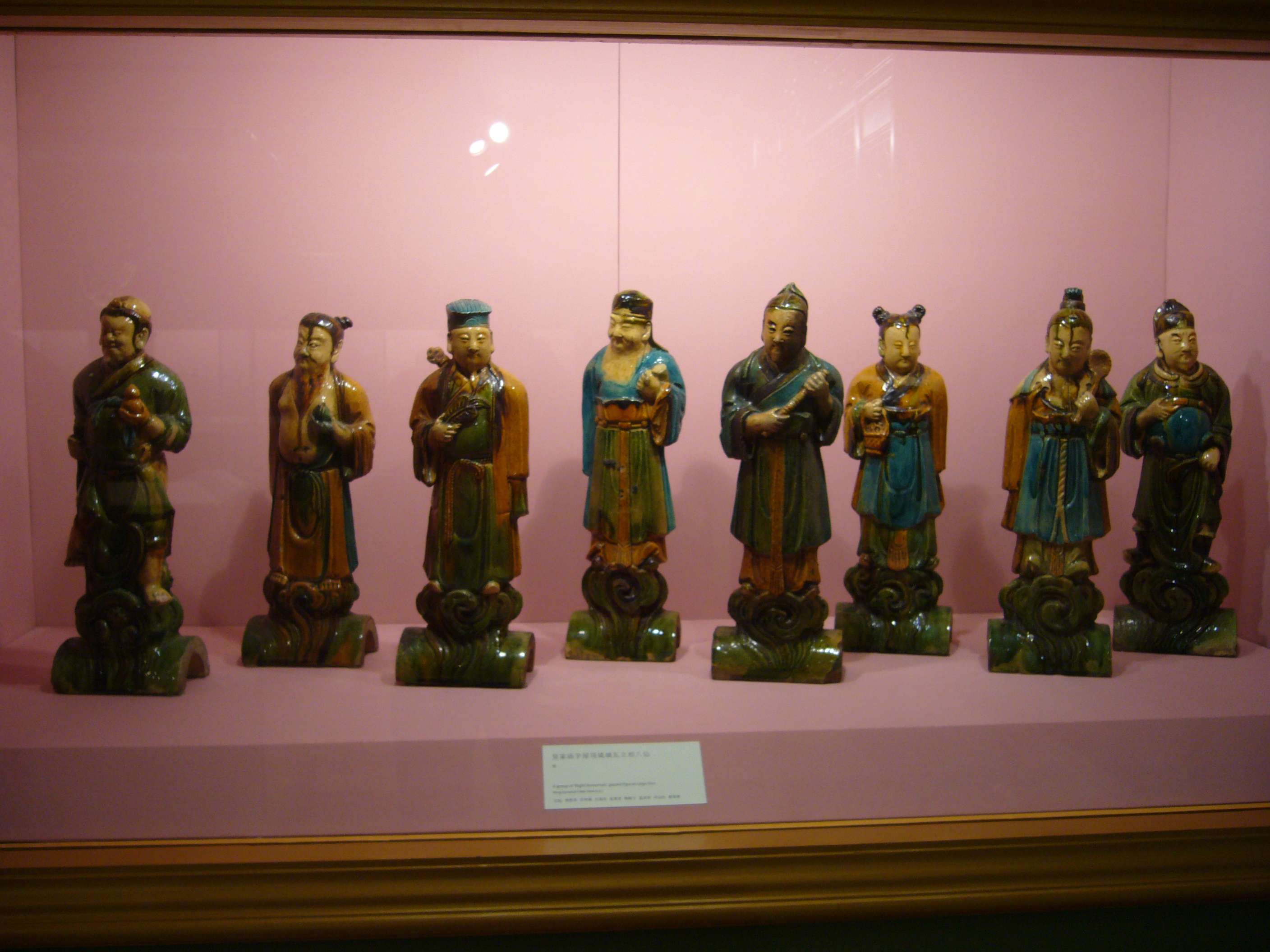 Eight immortals at the Suzhou Museum